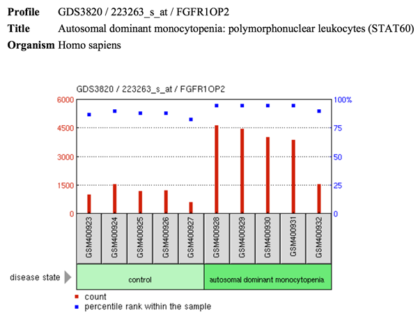 FGFR1OP2 expression in autosomal dominant monocytopenia.